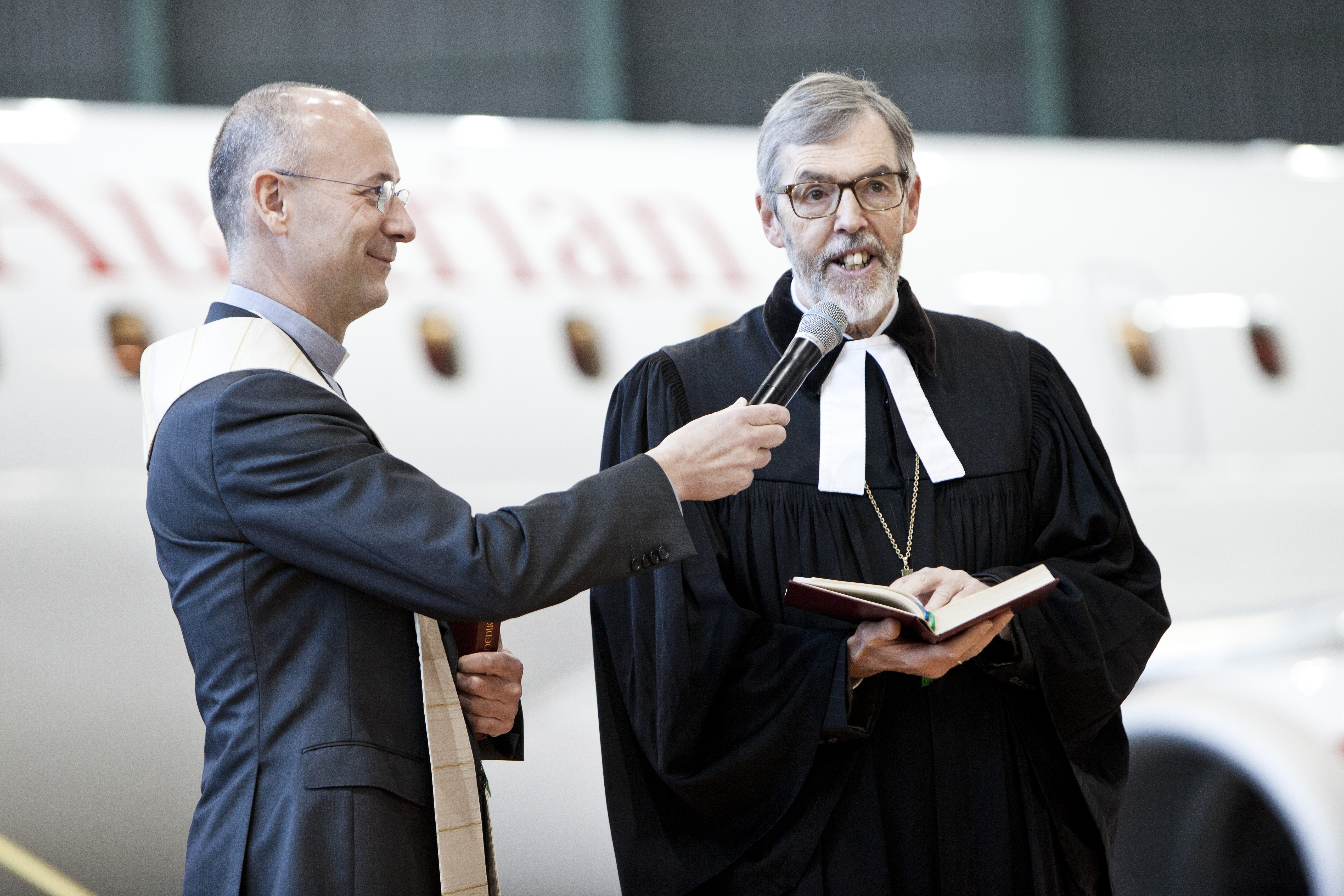 Christening of the first Austrian Airlines Embraer 195, on November 13, 2015.